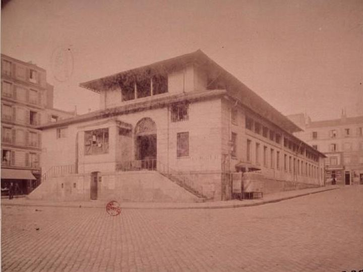 The marché des Partriarche in 1900, photo by Eugène Atget